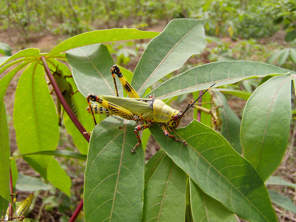 Male of the variegated grasshopper of stink locust (Zonocerus variegatus) feeding on cassava photographed on 16/02/05 at the Biological Control Centre for Africa (International Institute of Tropical Agriculture) in Cotonou, Benin, by Christiaan Kooyman. Males generally have longer wings than females relative to their size. The wings may even surpass the tip of the abdomen (macropterous).